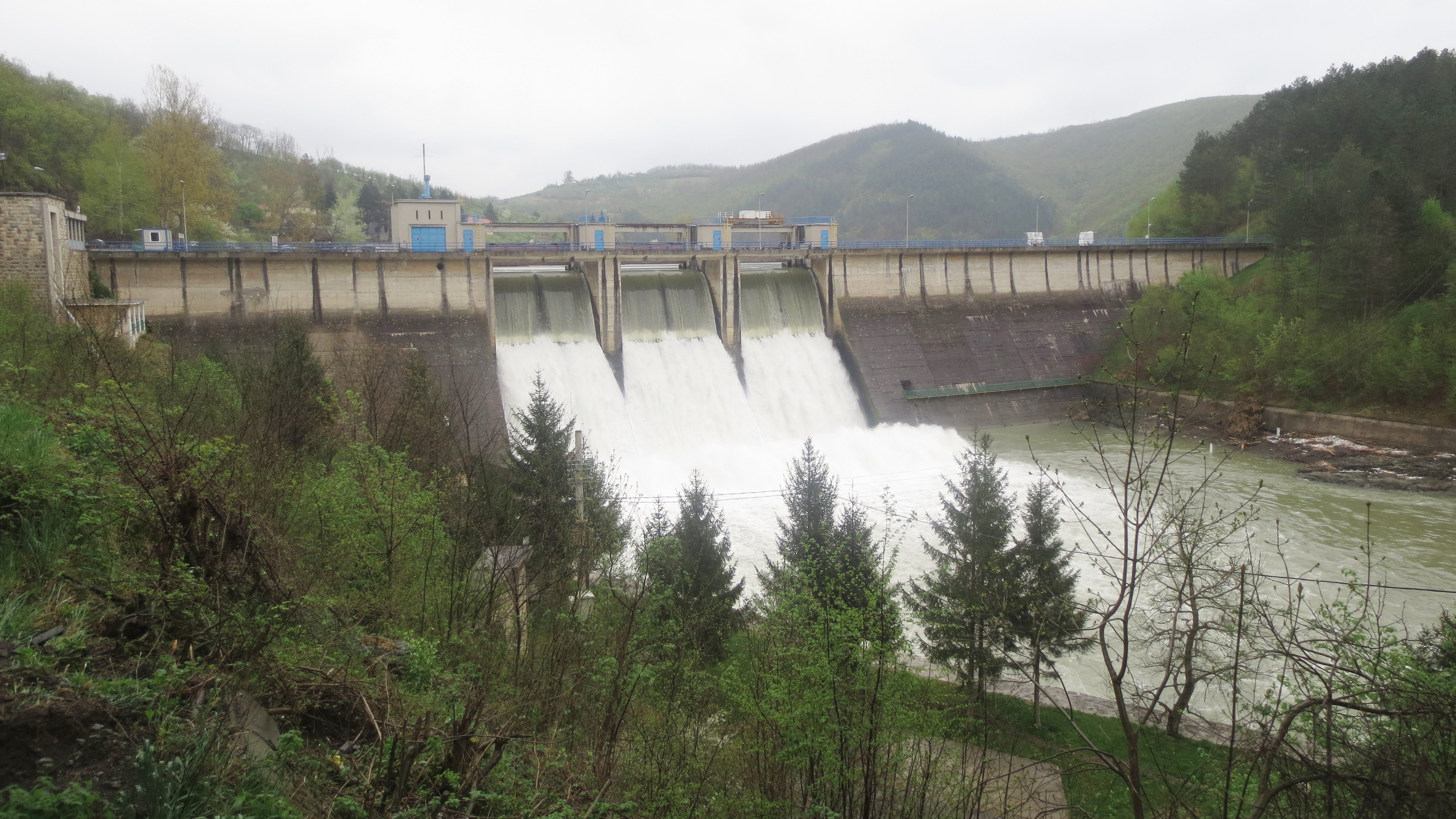 The Medjurvsje Dam in the Western Morava River (Ovčar-Kablar Gorge), damming the Medjurvsje Lake. This is 15 km west of Cacak. The HPP has a modest 7 MW installation.